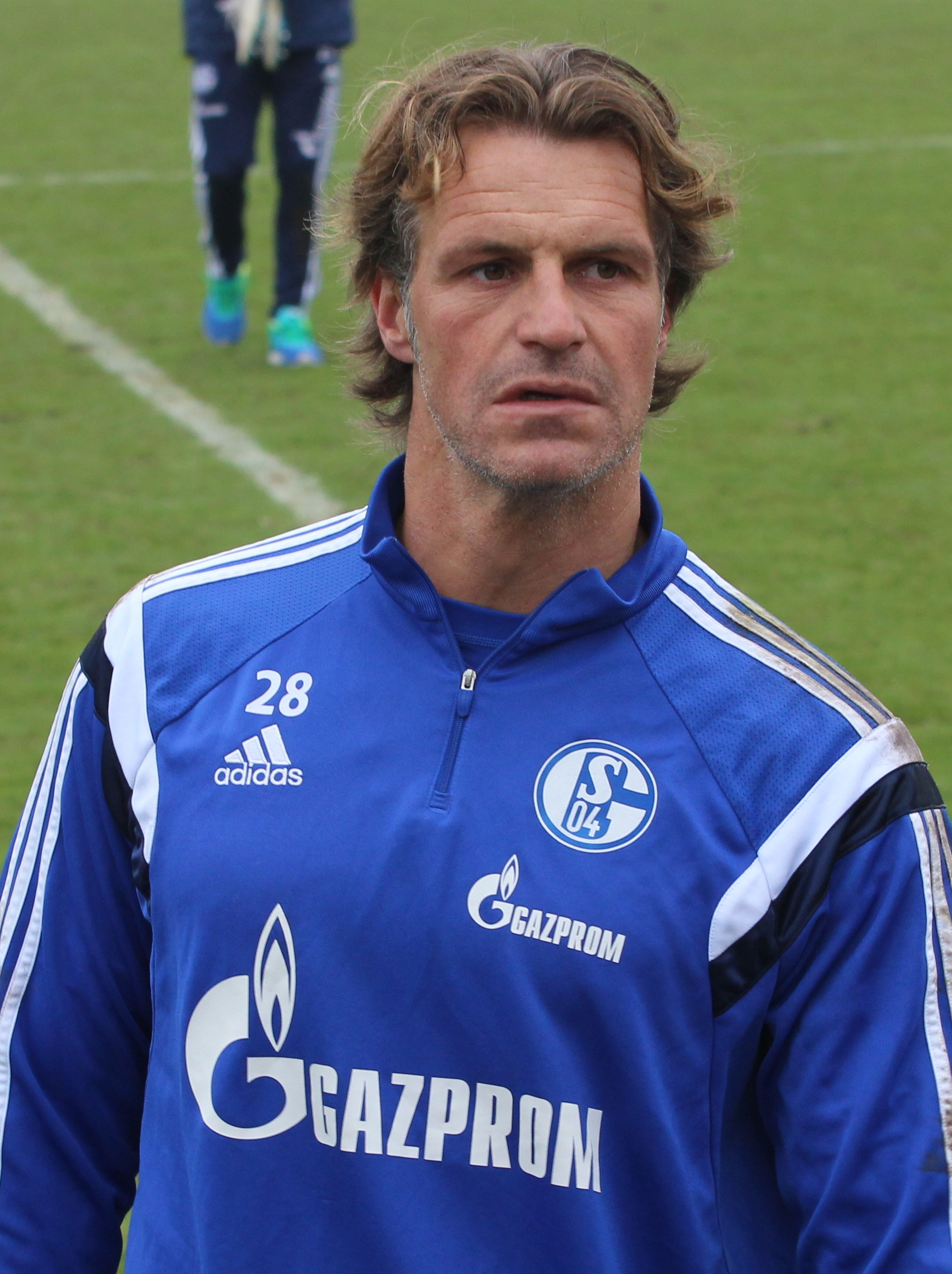 Christian Wetklo at a Schalke 04 training on 23 January 2015.